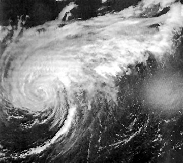 Hurricane Faith captured by the ESSA-2 satellite on September 1, 1966 as it moved towards Cape Hatteras on the North Carolina coast.